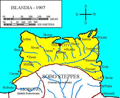 A map of the imaginary country of Islandia based on Austin Tappan Wright's (†1931) posthumously published 1942 Utopian novel Islandia. Created by Johnny Pez on 30 March 2006.